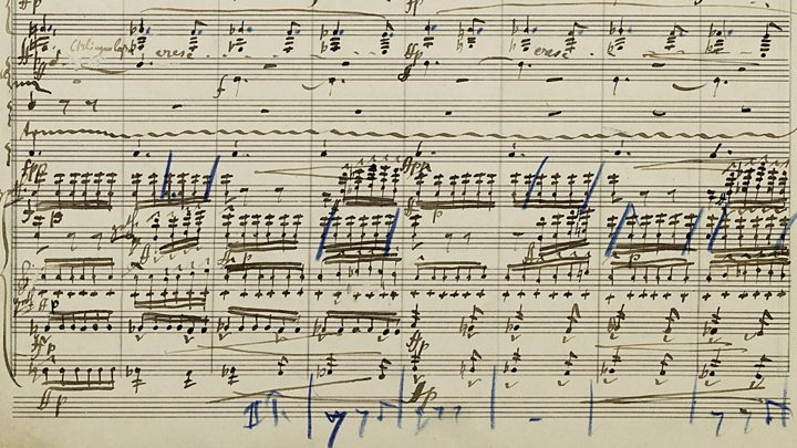 Mahler symphony no. 2 manusript